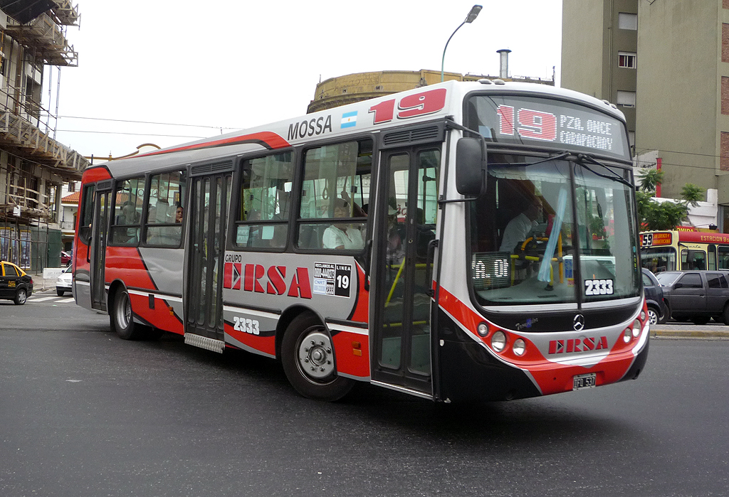 Metalpar Tronador bus (reg. IFO 537, #2333) with Mercedes-Benz chassis in Buenos Aires, Argentina. Colectivo, line 19. Micro Omnibus Saavedra S.A. (MOSSA, Grupo ERSA) operator.